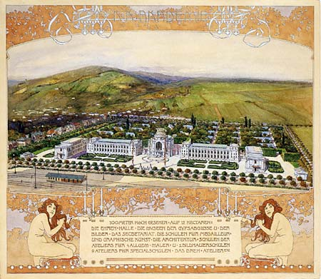 Bird's-Eye View, The Academy of Fine Arts